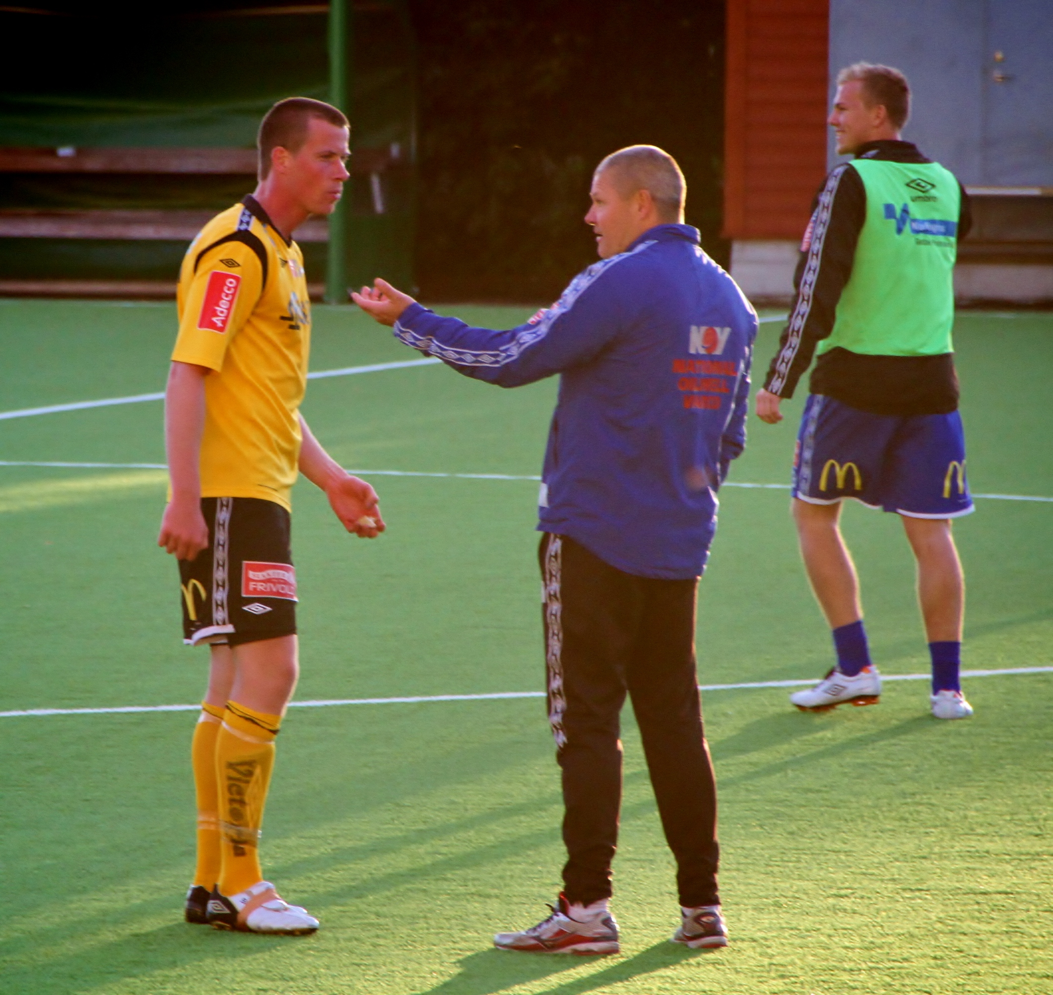 IK Start player in match between Start and Strømmen IF, August 2012. Strømmen stadium, Akershus, Norway.